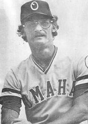 Professional baseball player Bob Detherage